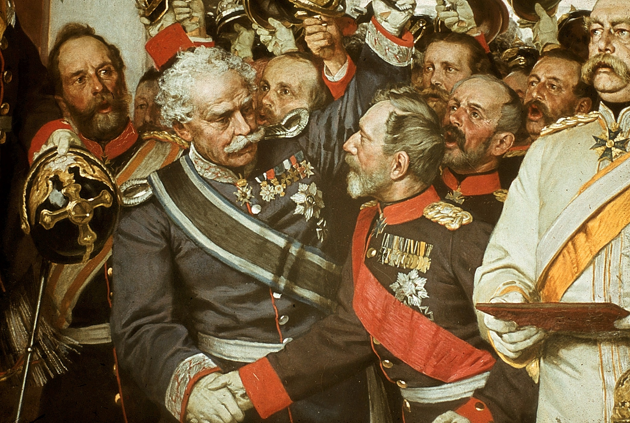 Crowning of Wilhelm I to Emperor of Germany, in Versailles, by Anton von Werner, second version for the Ruhmeshalle Berlin. Destroyed in WW 2 (as the first version too). Do not confuse with the third version of 1885, a birthday present for Bismarck with some differences. Detail (Third, commonly known version)